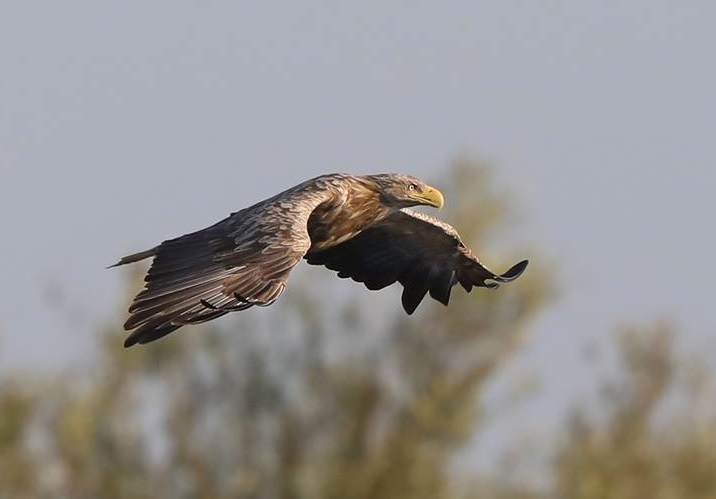 White-tailed eagle (Haliaeetus albicilla) in the Biesbosch National Park, the Netherlands.